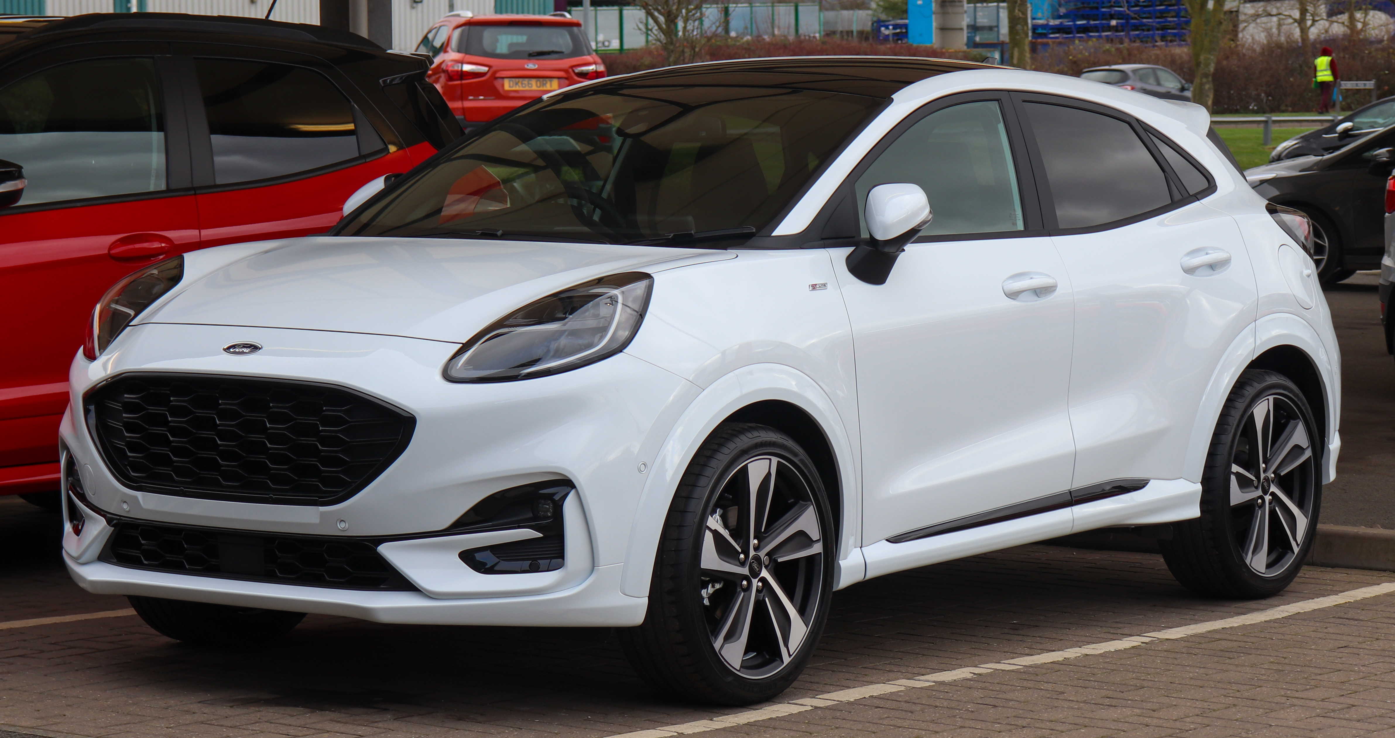 2020 Ford Puma ST-Line X EcoBoost Hybrid 1.0 Front Taken in Leamington Spa